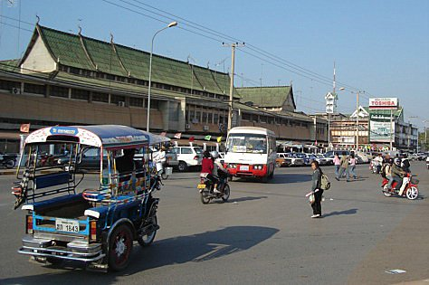 morning market in Vientiane,Laos